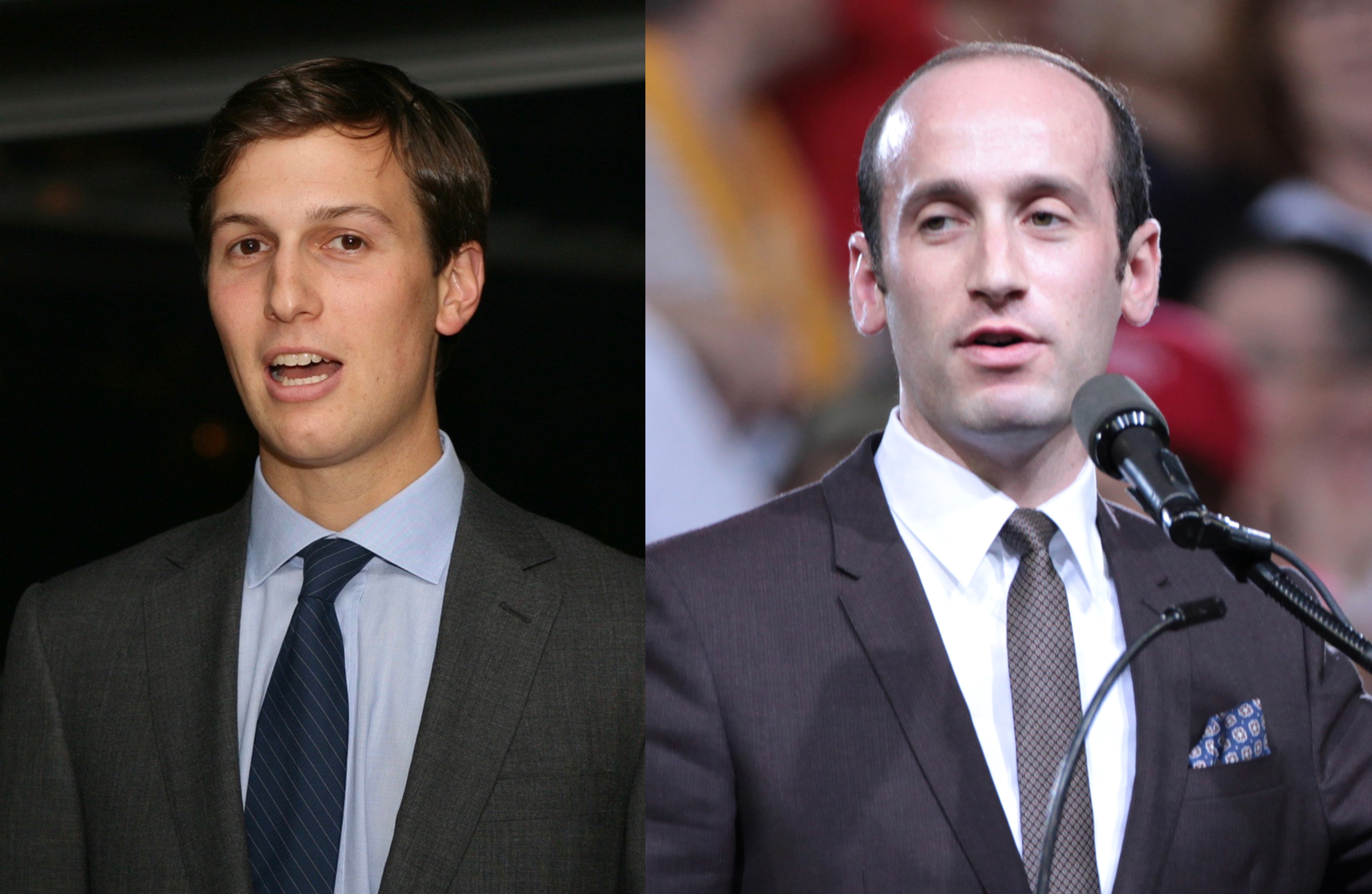 The Senior Advisor to the President of the United States 2017